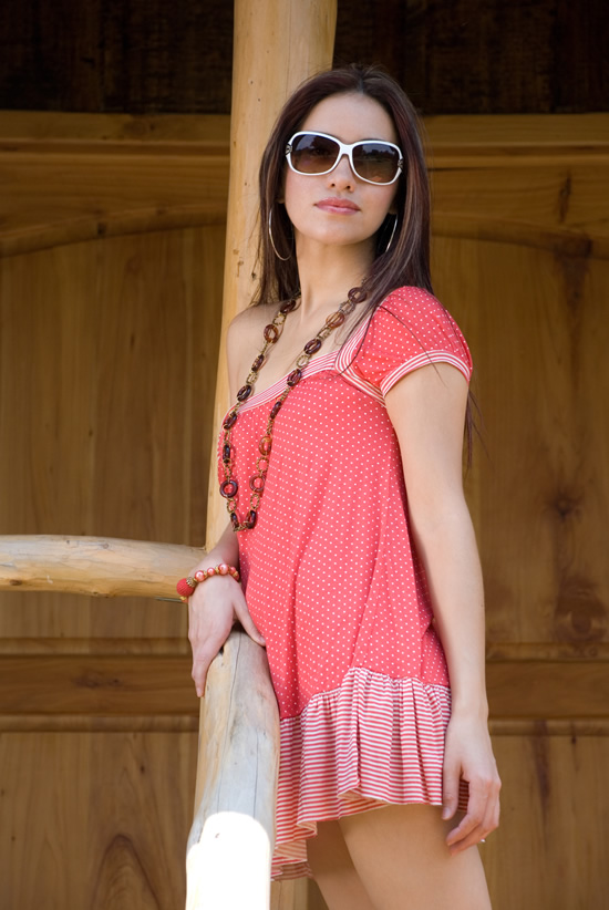 Portrait of Shery, the Guatemalan singer and songwriter.